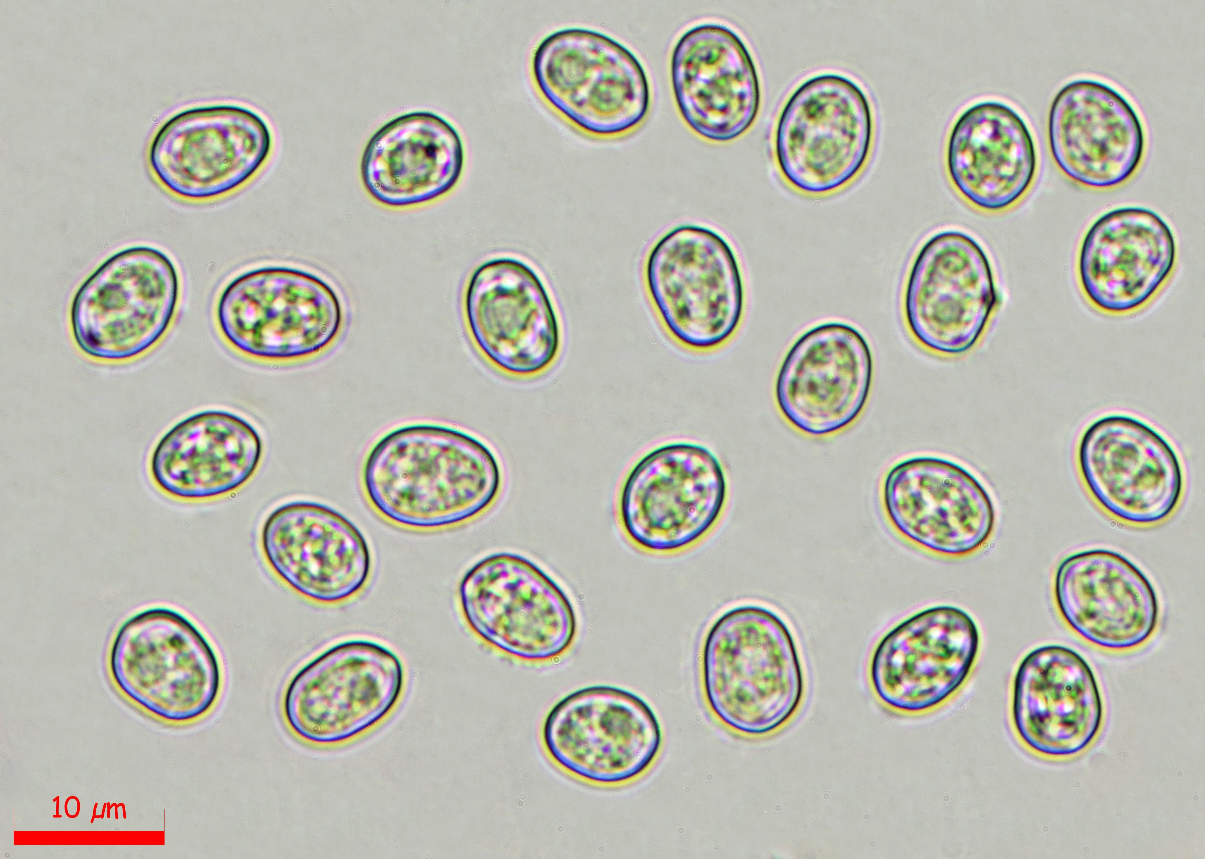 Spores 1000x This image is Image Number 312704 at Mushroom Observer, a source for mycological images. This tag does not indicate the copyright status of the attached work. A normal copyright tag is still required. See Commons:Licensing.